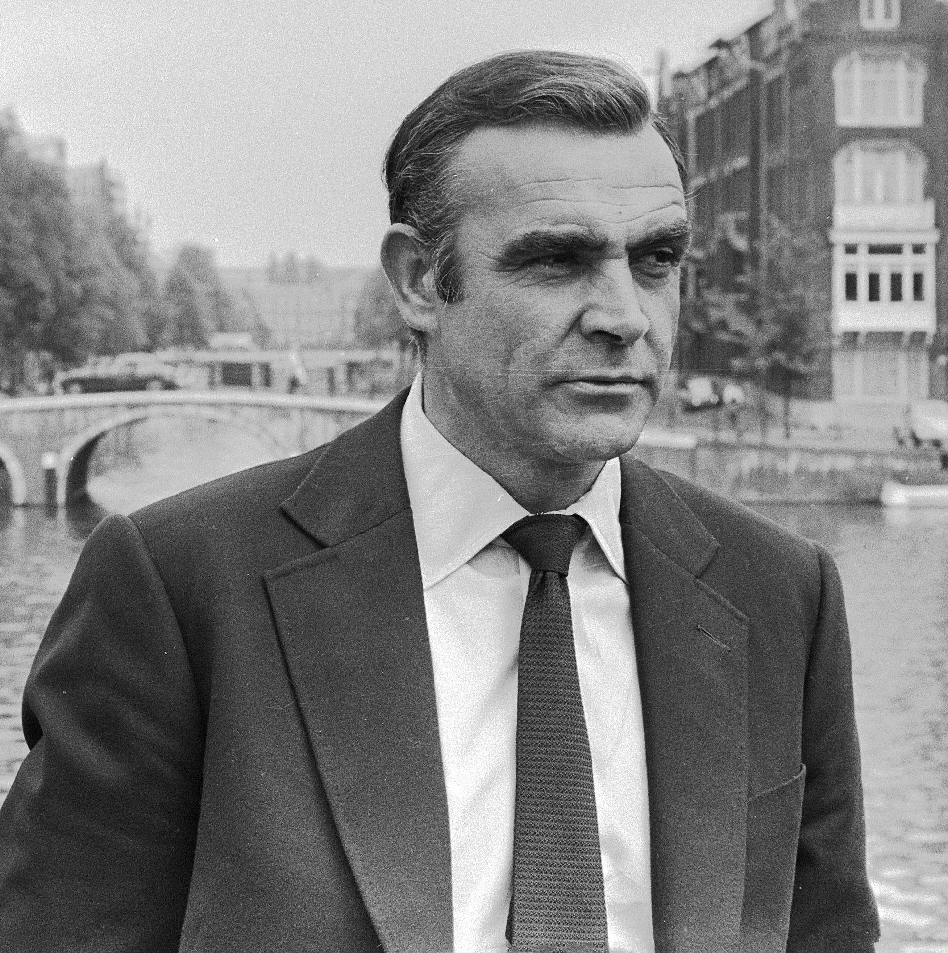 Sean Connery shooting the James Bond movie "Diamonds are Forever" in Amsterdam, the Netherlands.